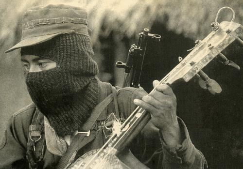 A member of the Ejército Zapatista de Liberación Nacional, playing a crude 3 string slide guitar in Chiapas, Mexico